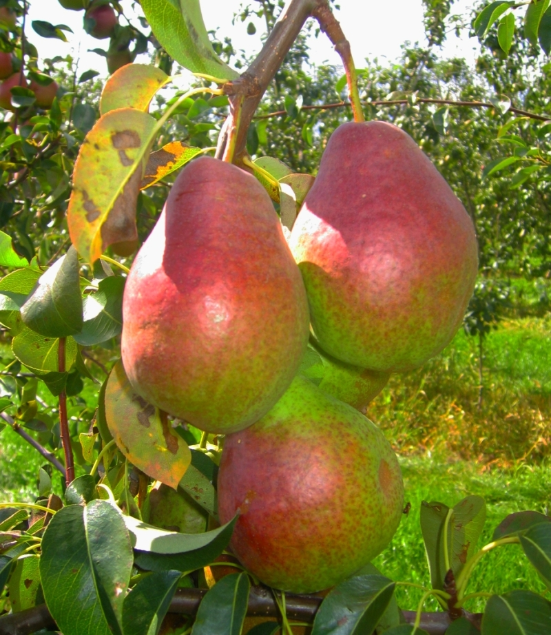 Fruits of european pear Isolda